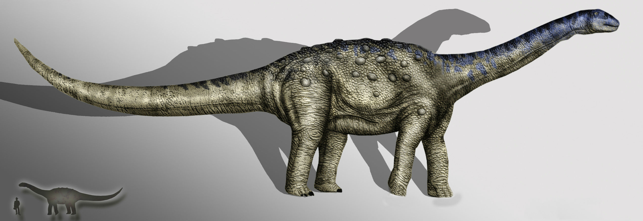 Aeolosaurus